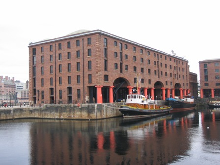 Photograph of Merseyside Maritime Museum at Albert Dock, Liverpool.